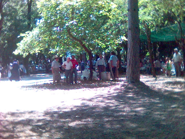 Polydroso, Thesprotia, Greece